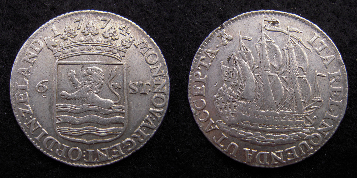 Shilling of Zeeland, silver, 1774, Middelburg mint.